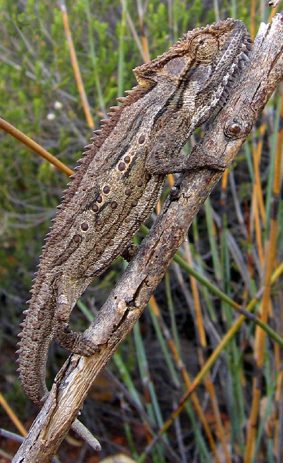 Bradypodion gutturale, Anysberg Nature Reserve, Western Cape Province